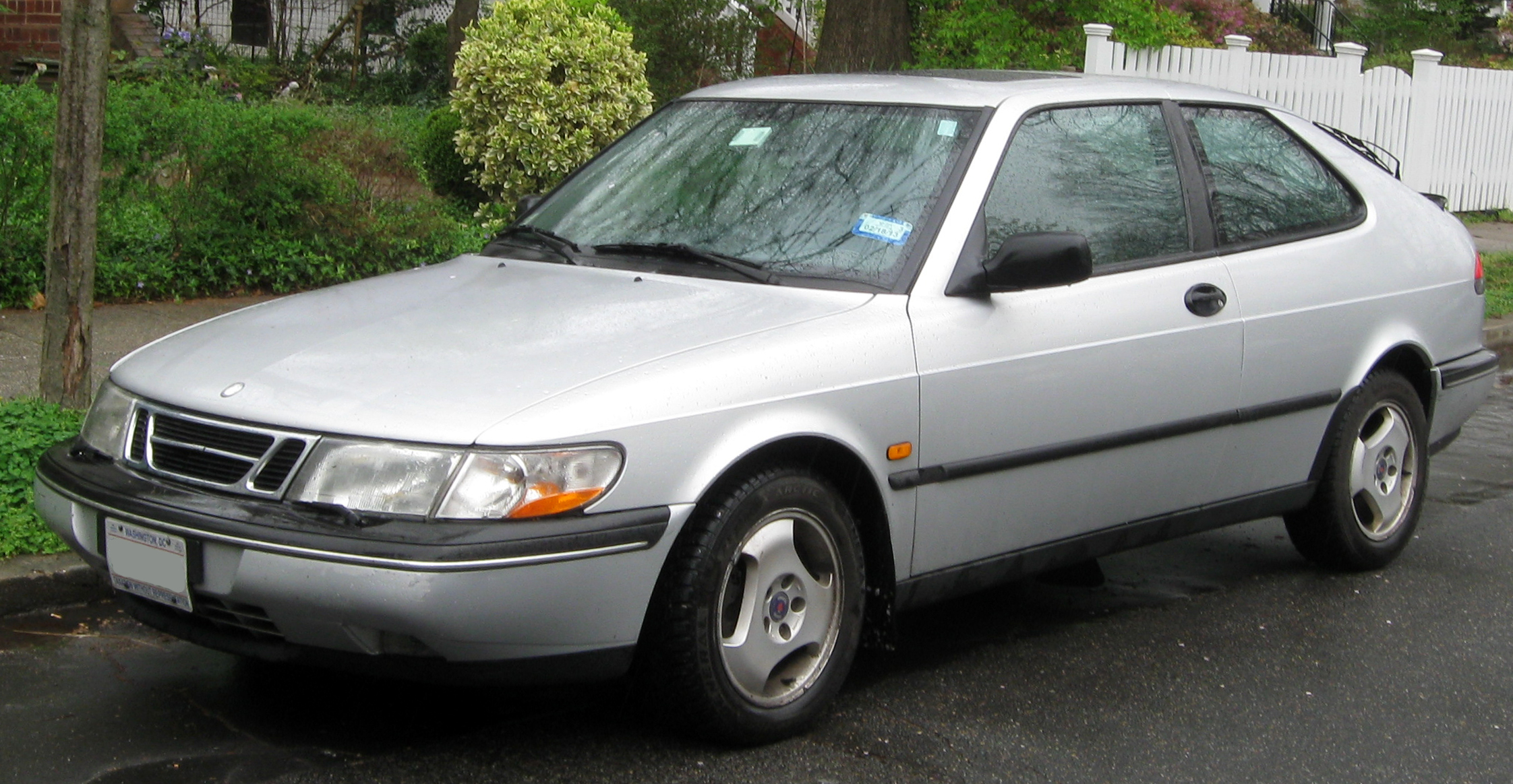 Saab 900 photographed in Washington, D.C., USA.